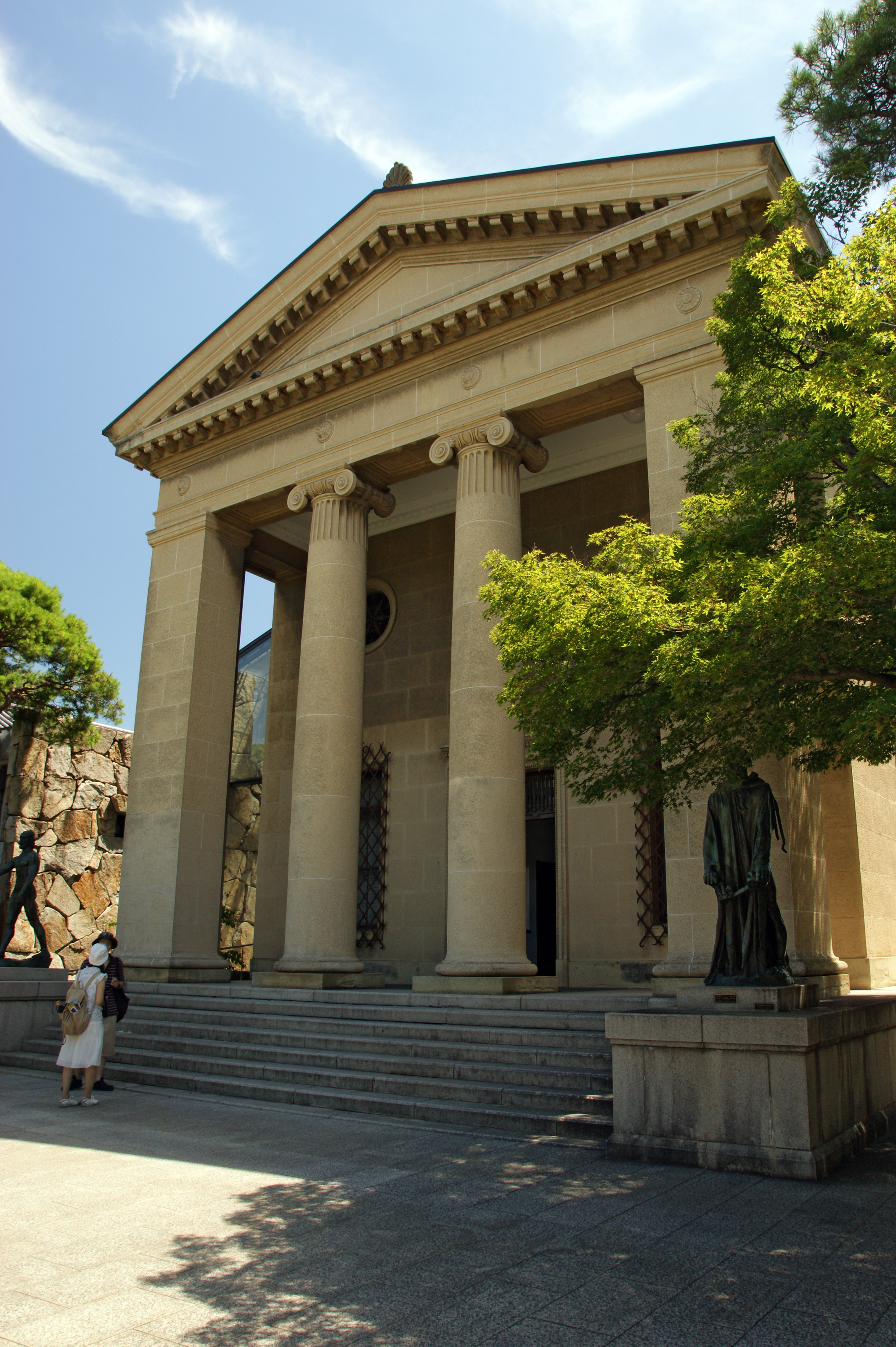 Ōhara Art Museum in Kurashiki, Okayama prefecture, Japan